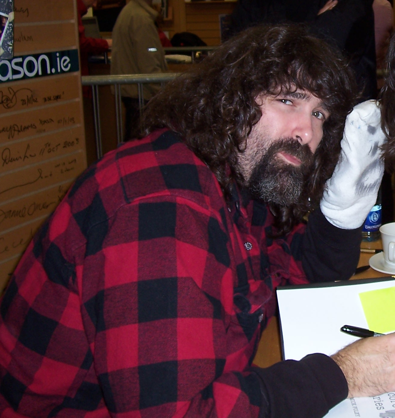 Mick Foley at book signing at an Easons store in Dublin, Ireland.